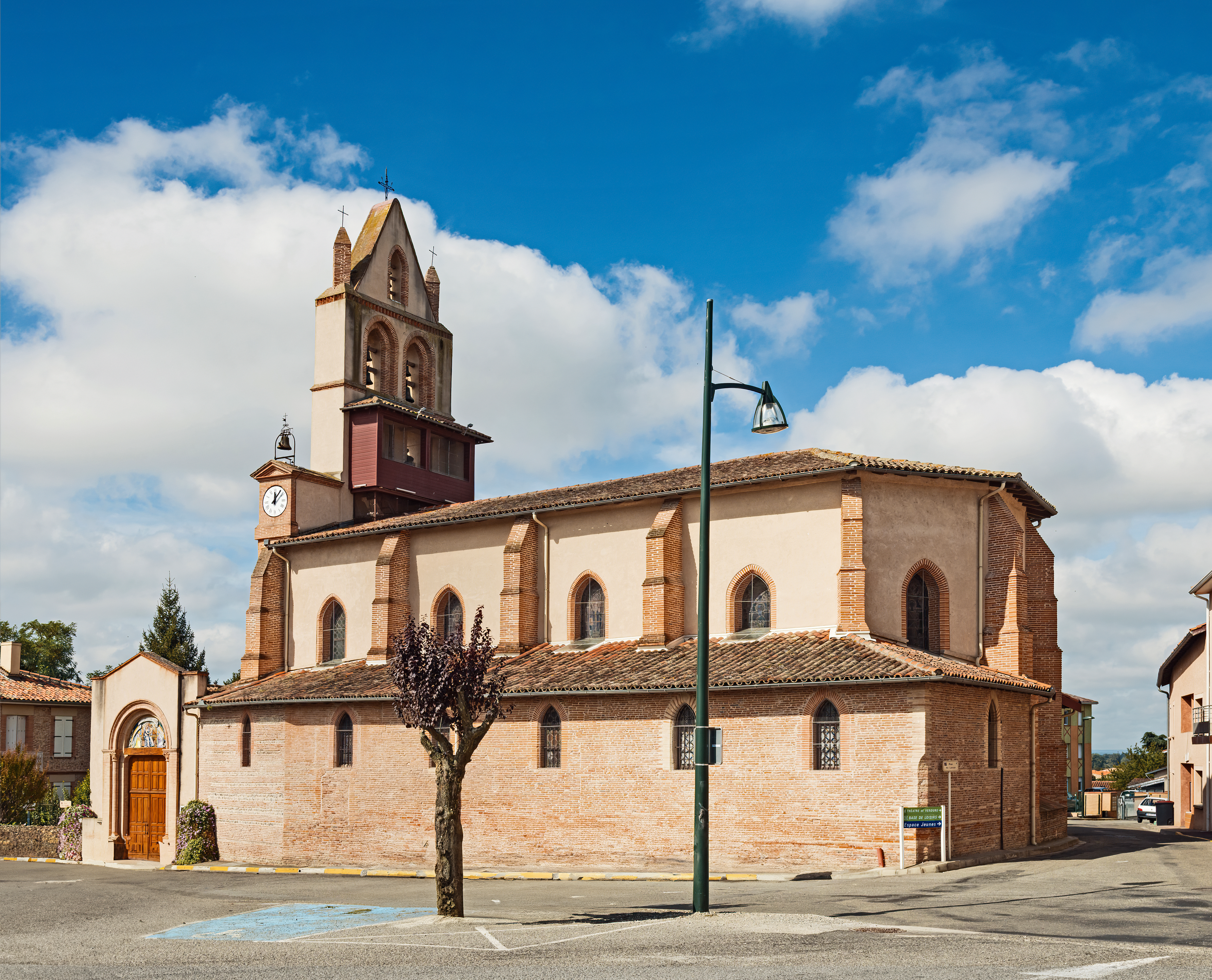 Bruguières (Haute-Garonne), France. Church of St. Martin